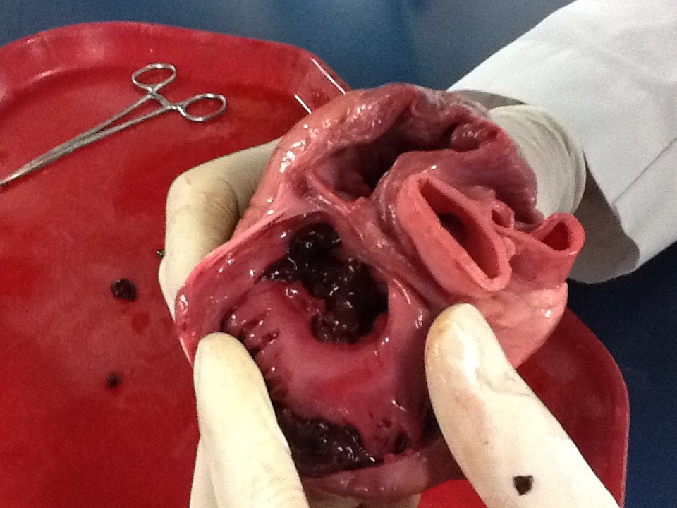 Dissection of the heart performed by medicine students of Monterrey Tech. In the photo, the entrance of the big atria can be observed